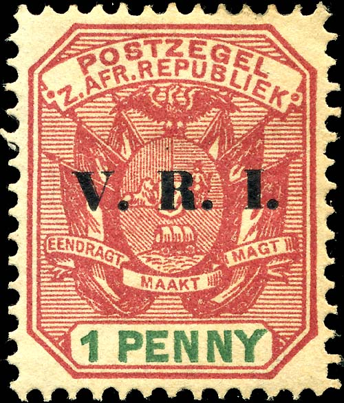 Transvaal 1p VRI overprint stamp of 1900